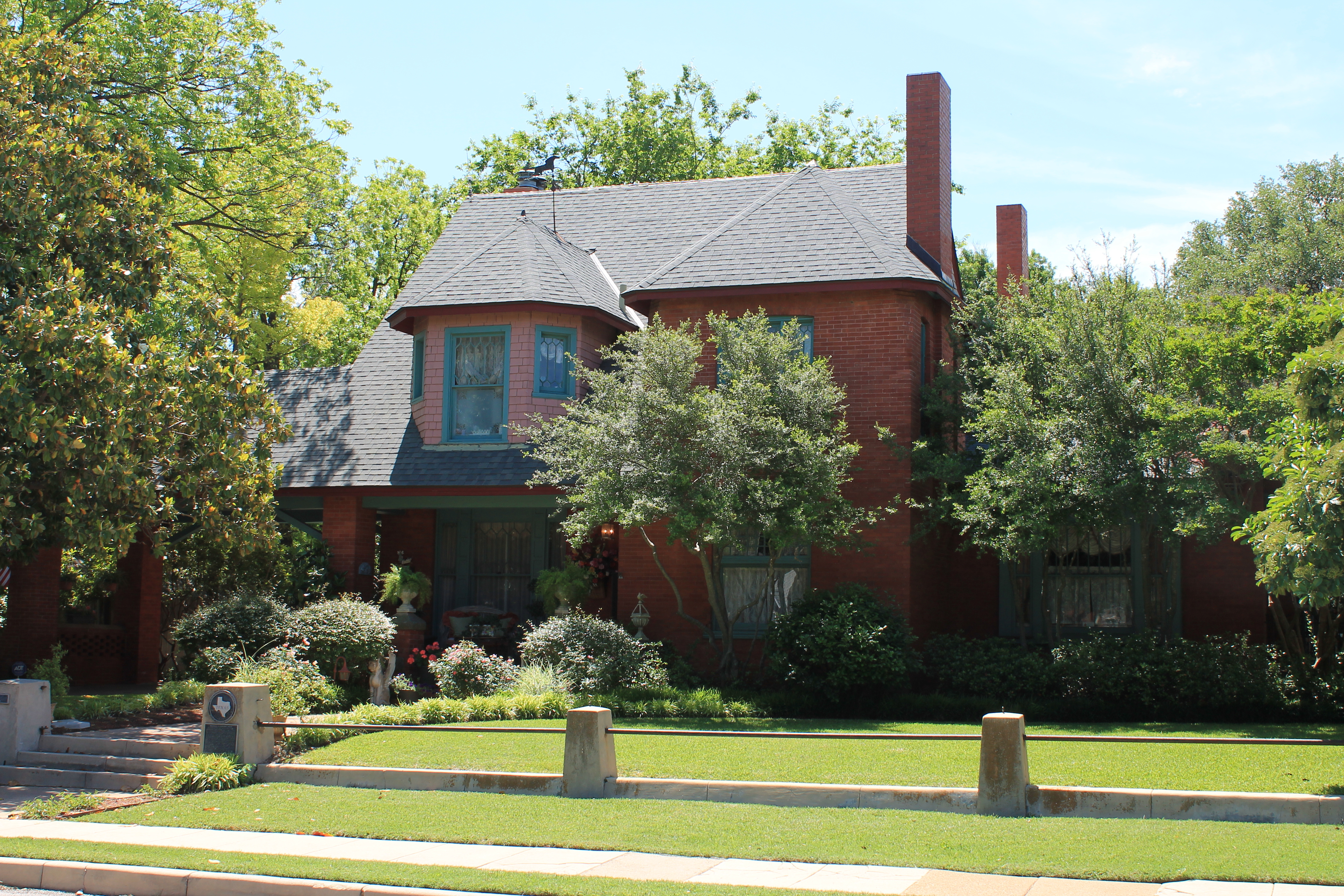 Marsall R. Sanguinet